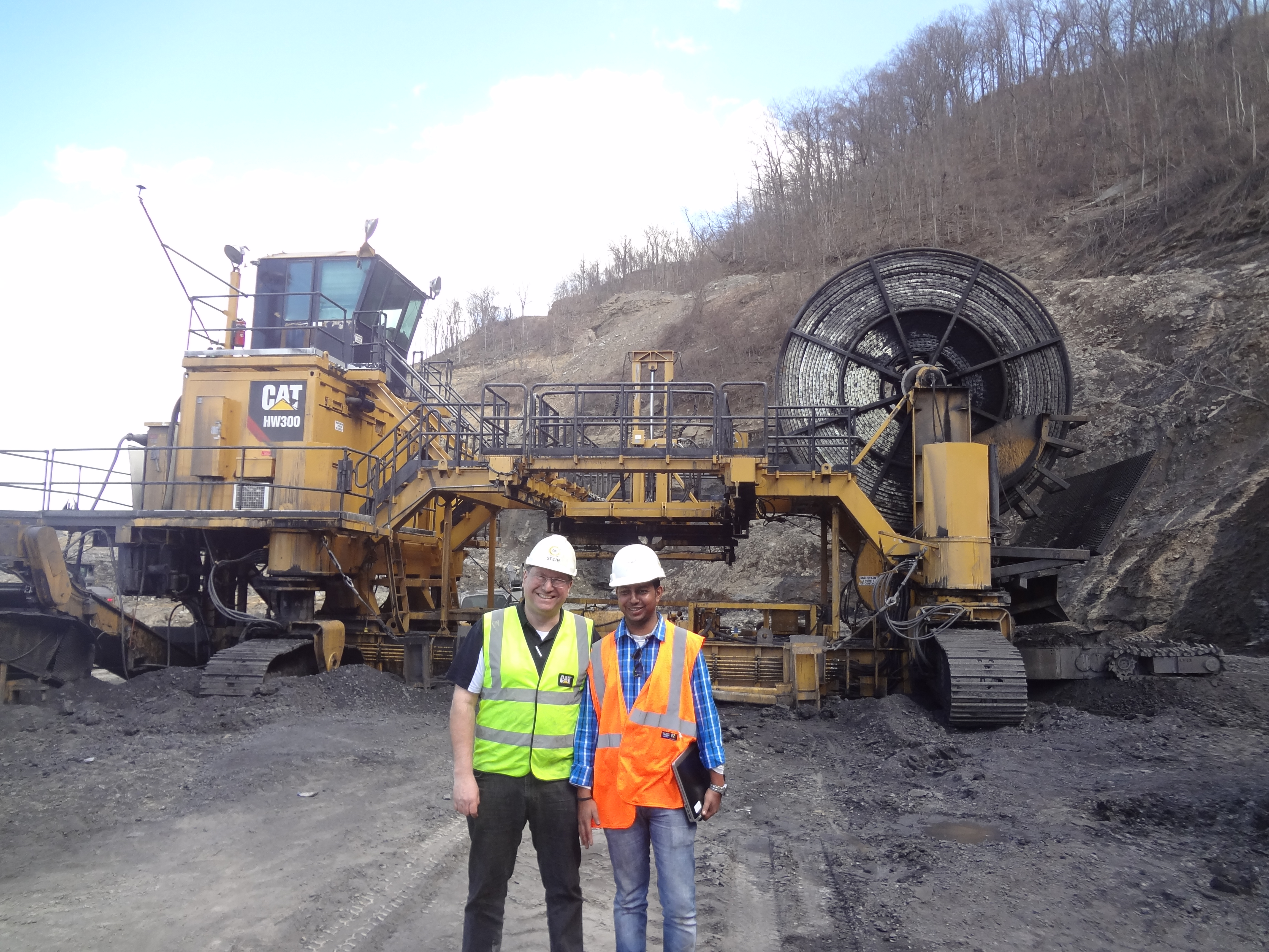 Highwall Miner bridge between Open cast & Underground mining